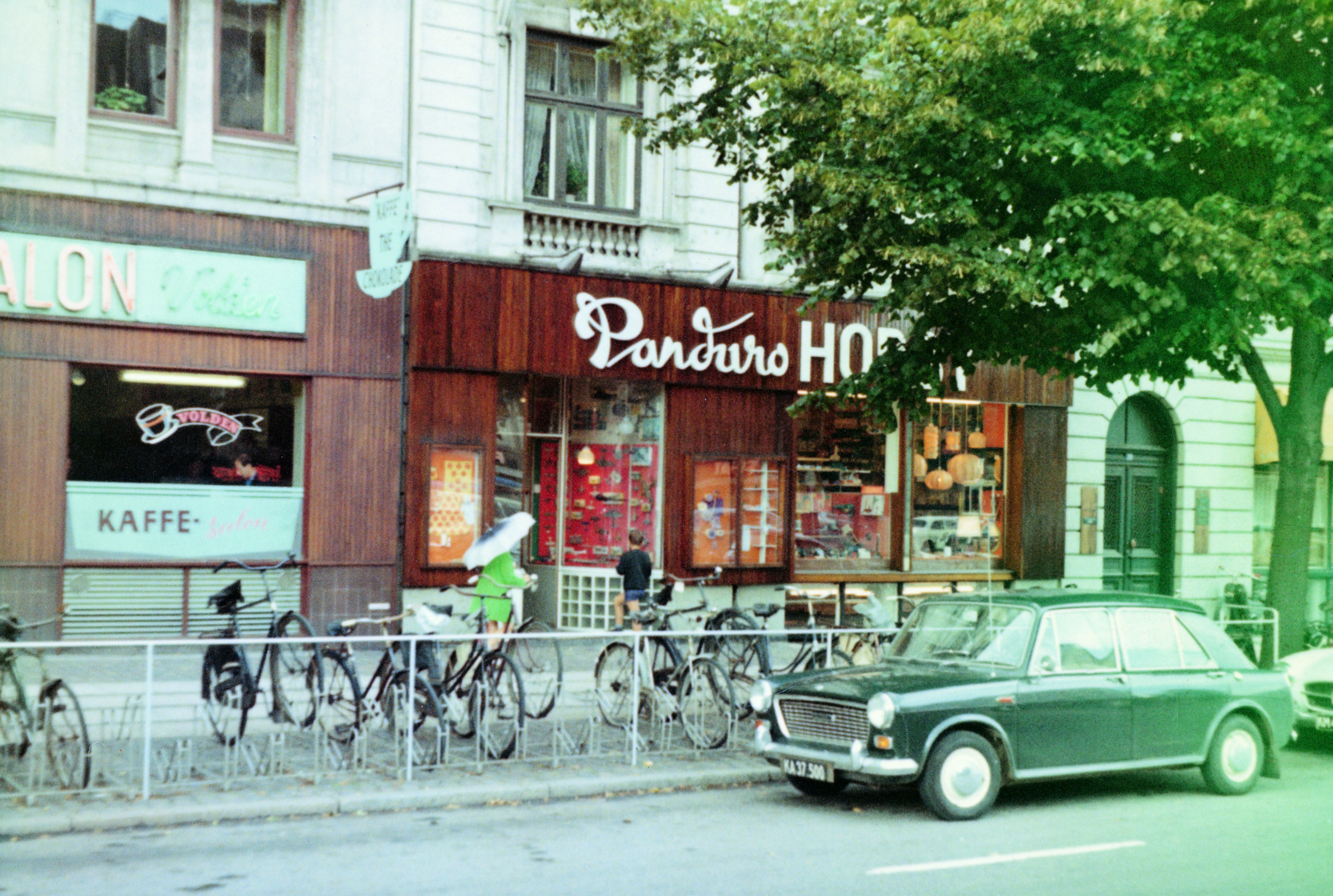 The first Panduro Hobby store.